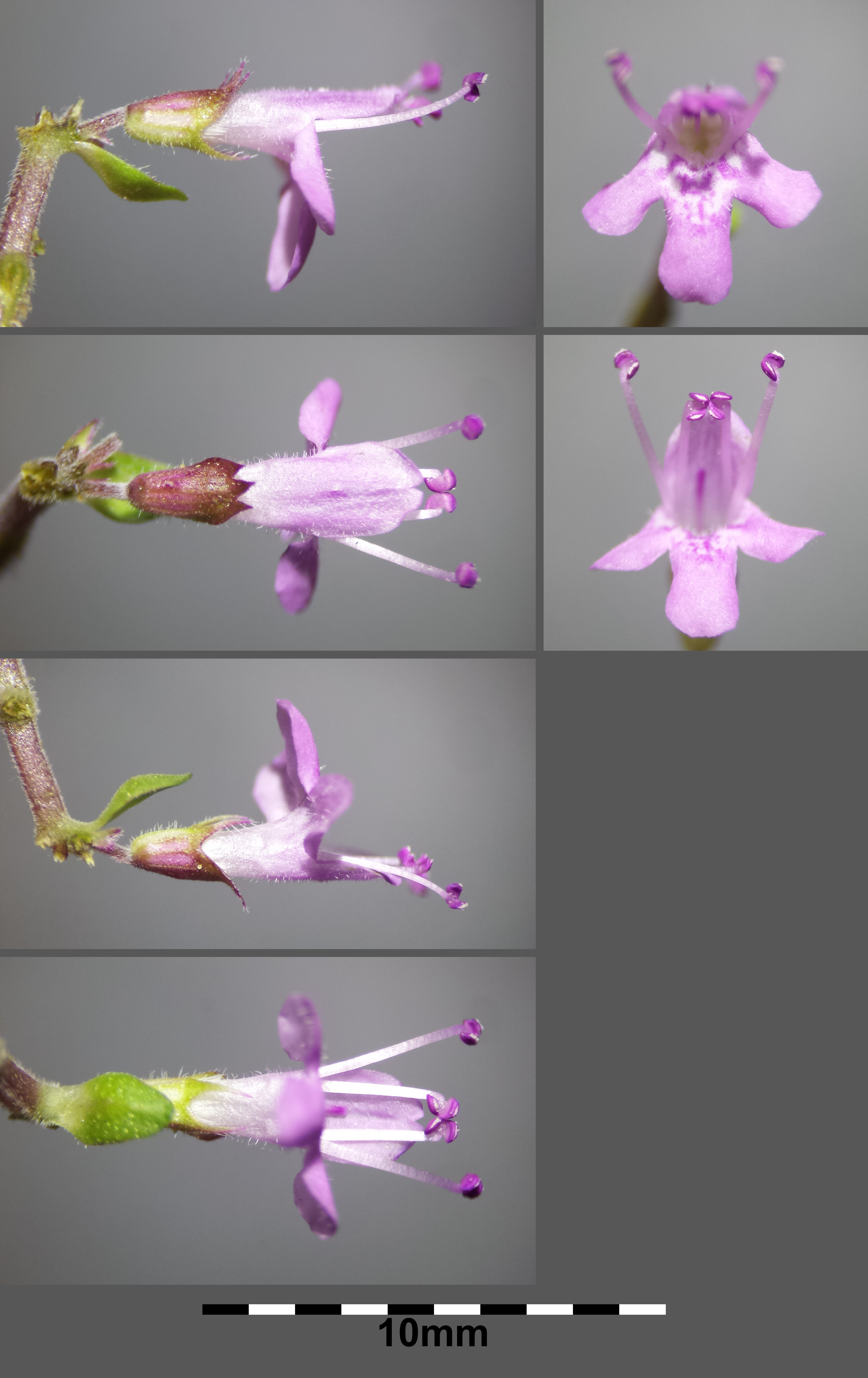 Flower (☿ individual) Taxonym: Thymus pulegioides subsp. pulegioides ss Fischer et al. EfÖLS 2008 ISBN 978-3-85474-187-9 Location: next to Griesbach, Groß-Gerungs, district Zwettl, Lower Austria - ca. 800 m a.s.l. Habitat: wayside/slope